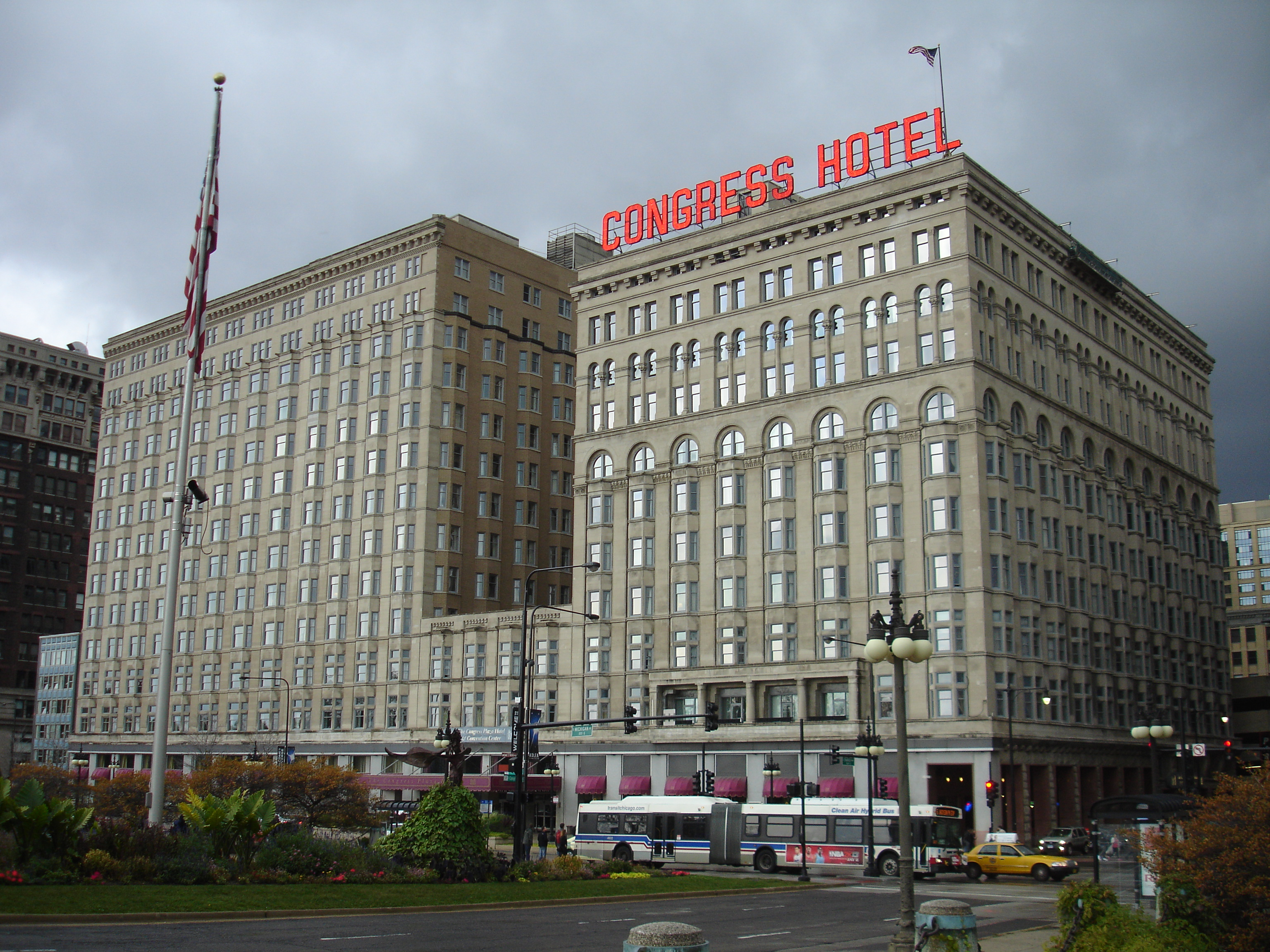 The Congress Plaza Hotel at Michigan Avenue and Congress Parkway in Chicago, USA.